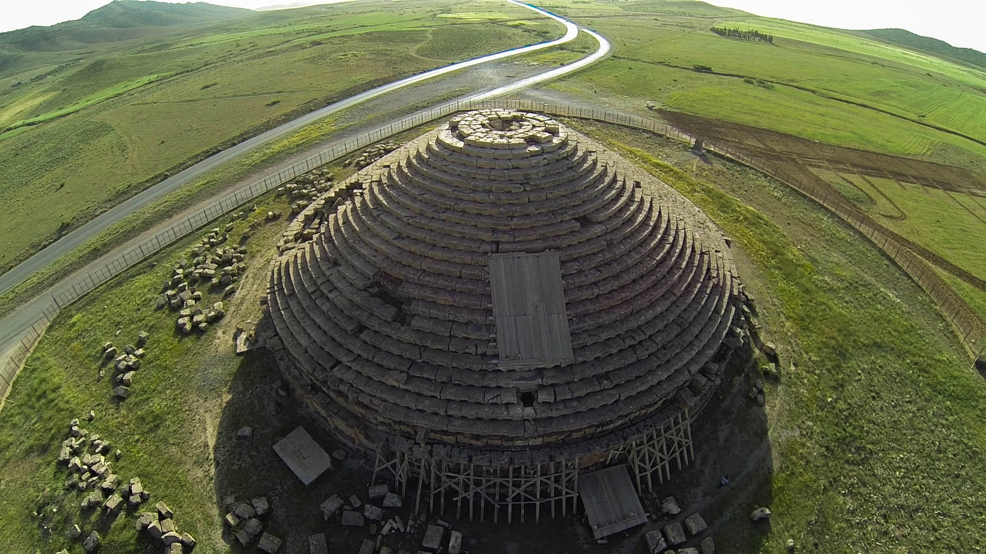 Imedghasen is a royal mausoleum-temple of the Berber Numidian Kings which stands near Batna city in Aurasius Mons in Numidia - Algeria.